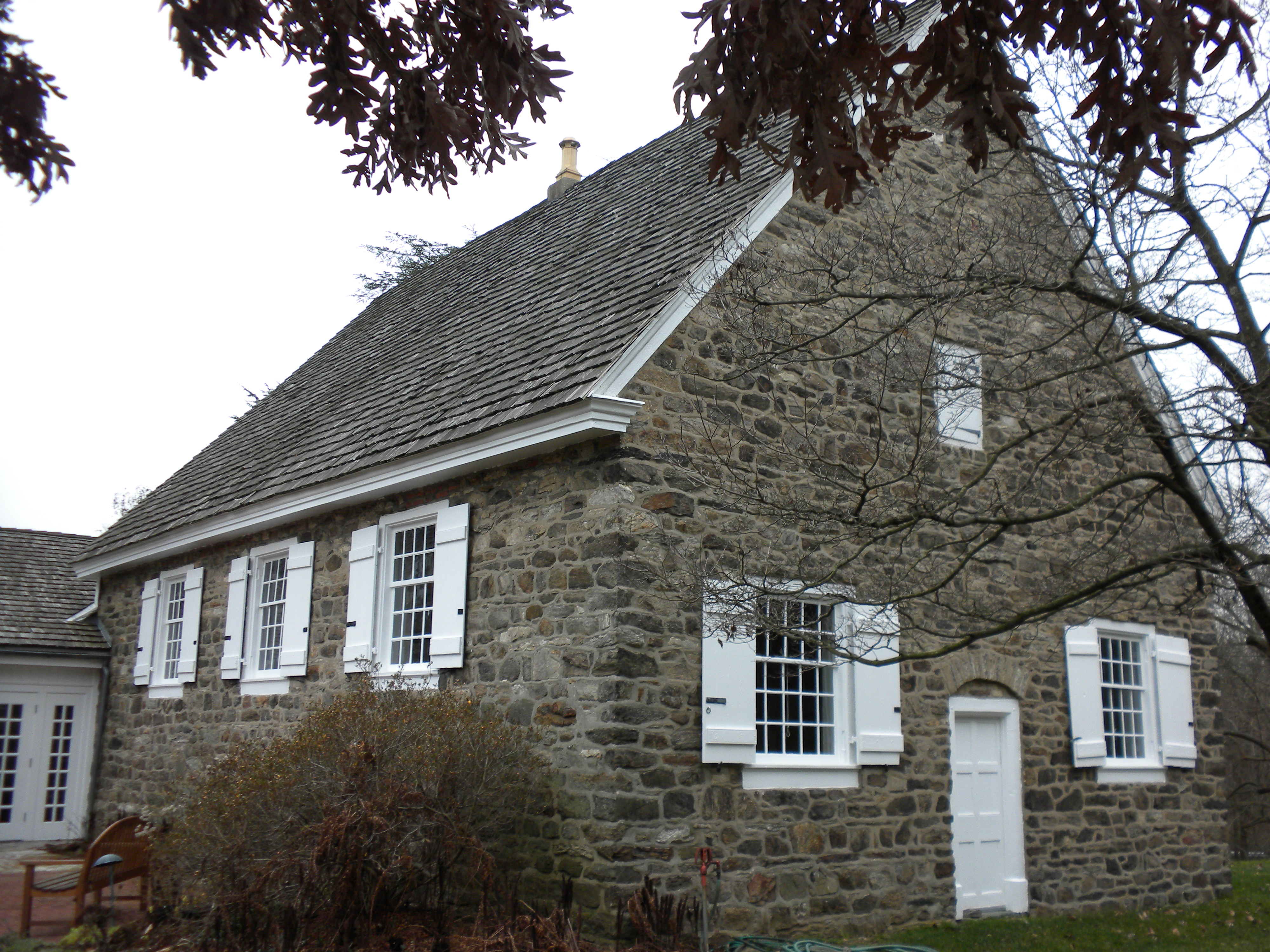 Friends Meetinghouse in Radnor, PA in Delaware County, at Conestoga and Sproul Roads. On the NRHP. Rebuilt about 1750.